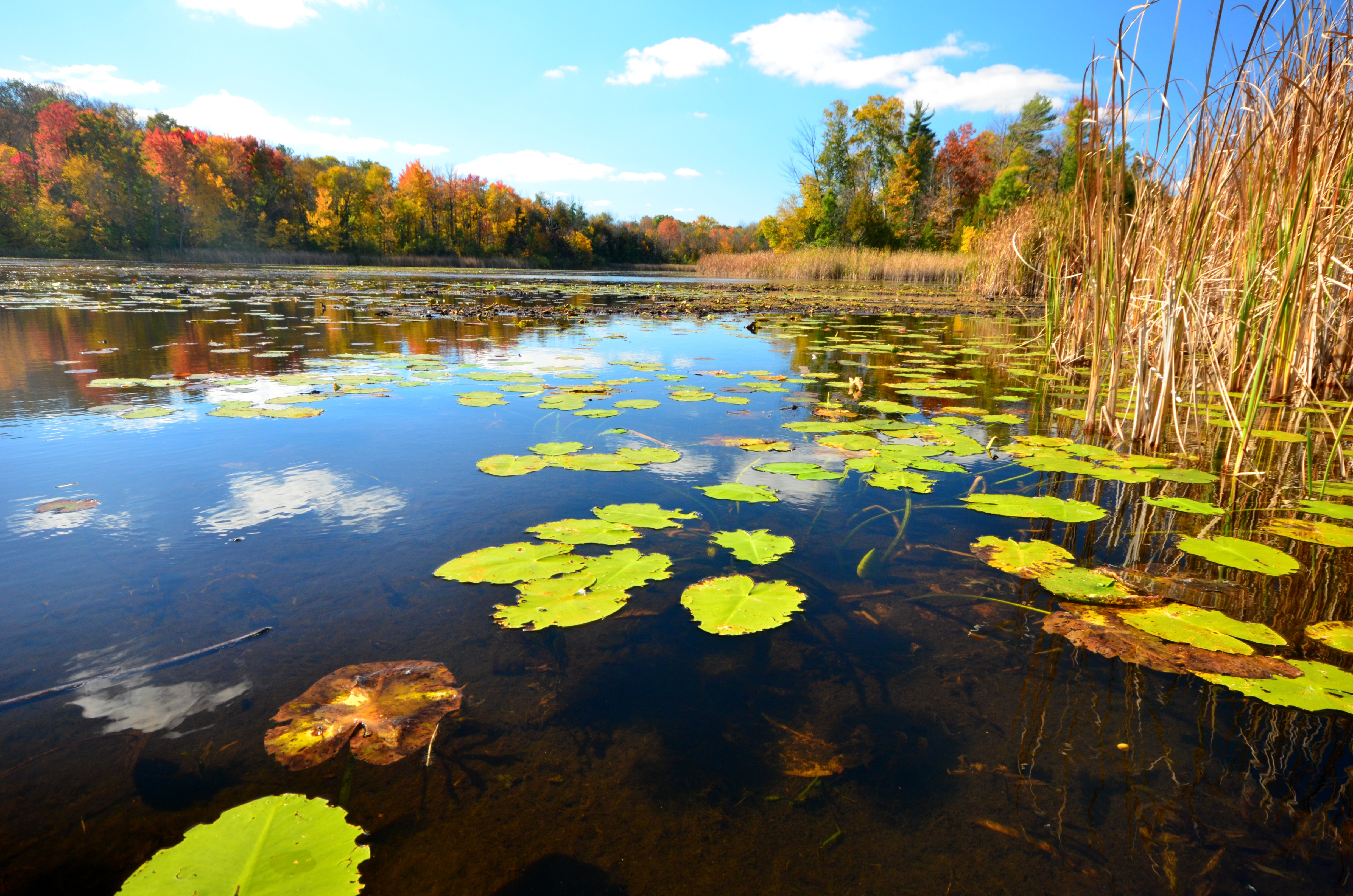 Huiras Lake Wisconsin State Natural Area #353 Ozaukee County